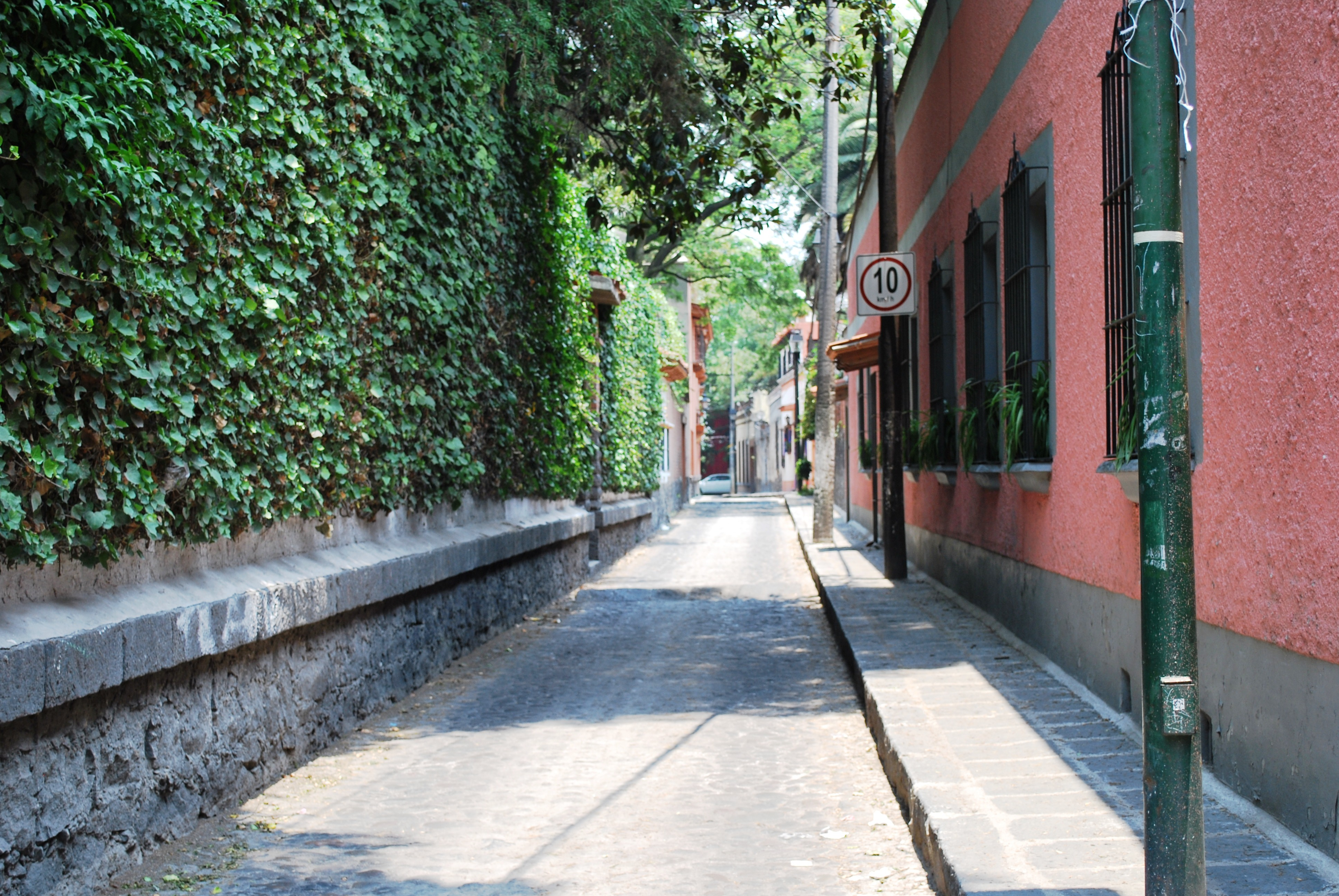 Narrow alleyway off of Avenida Progreso in the Coyoacan borough of Mexico City